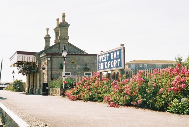 West Bay station – long since seen a train